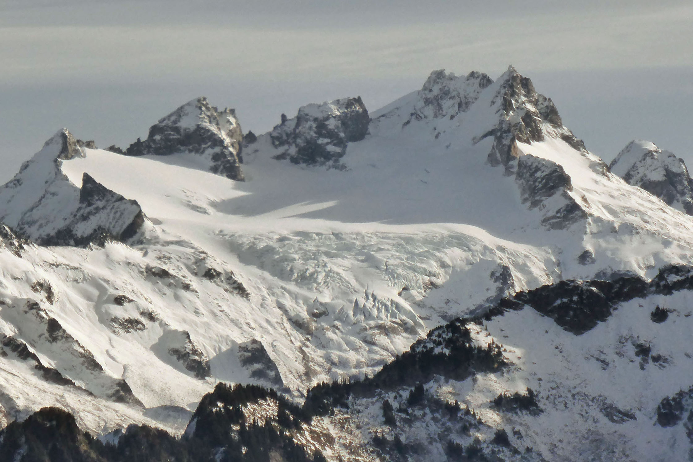 Dome Glacier (center); Dome Peak (right center skyline); Sinister Peak (right skyline behind Dome Peak); north ridge of Gloria Point (6640 feet, 2024 m, middle distance); North Cascades, Washington Viewpoint location: Green Mountain Lookout, Green Mountain Trail #782, Glacier Peak Wilderness Viewpoint elevation: 1982 meter (6504 ft) View direction: 83° Location source: Google Earth and Flickr source page